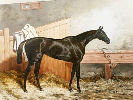 Formosa, Thoroughbred racemare and winner of the 1868 St. Leger, Epsom Oaks, 2000 Guineas and 1000 Guneas Stakes.